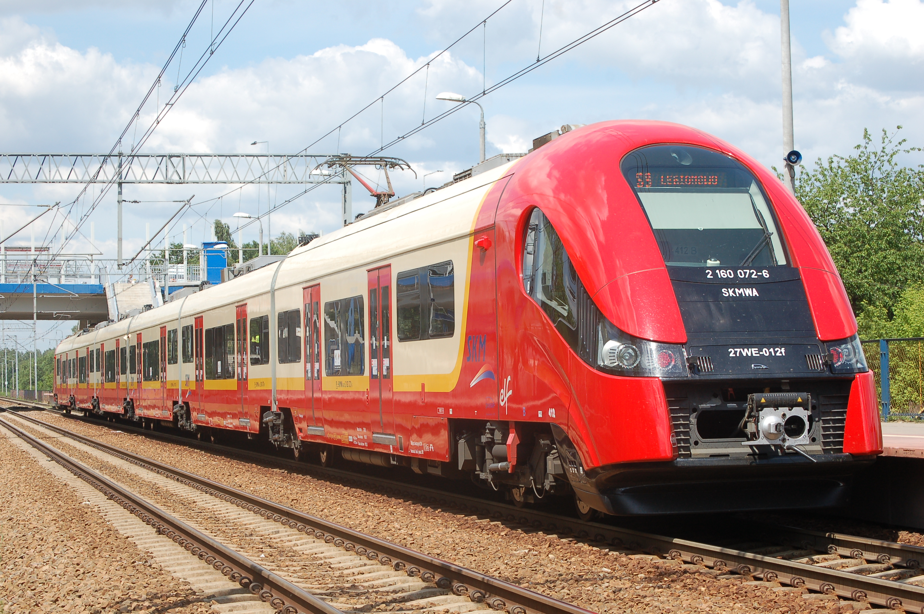 SKM S9 at Warszawa Pludy